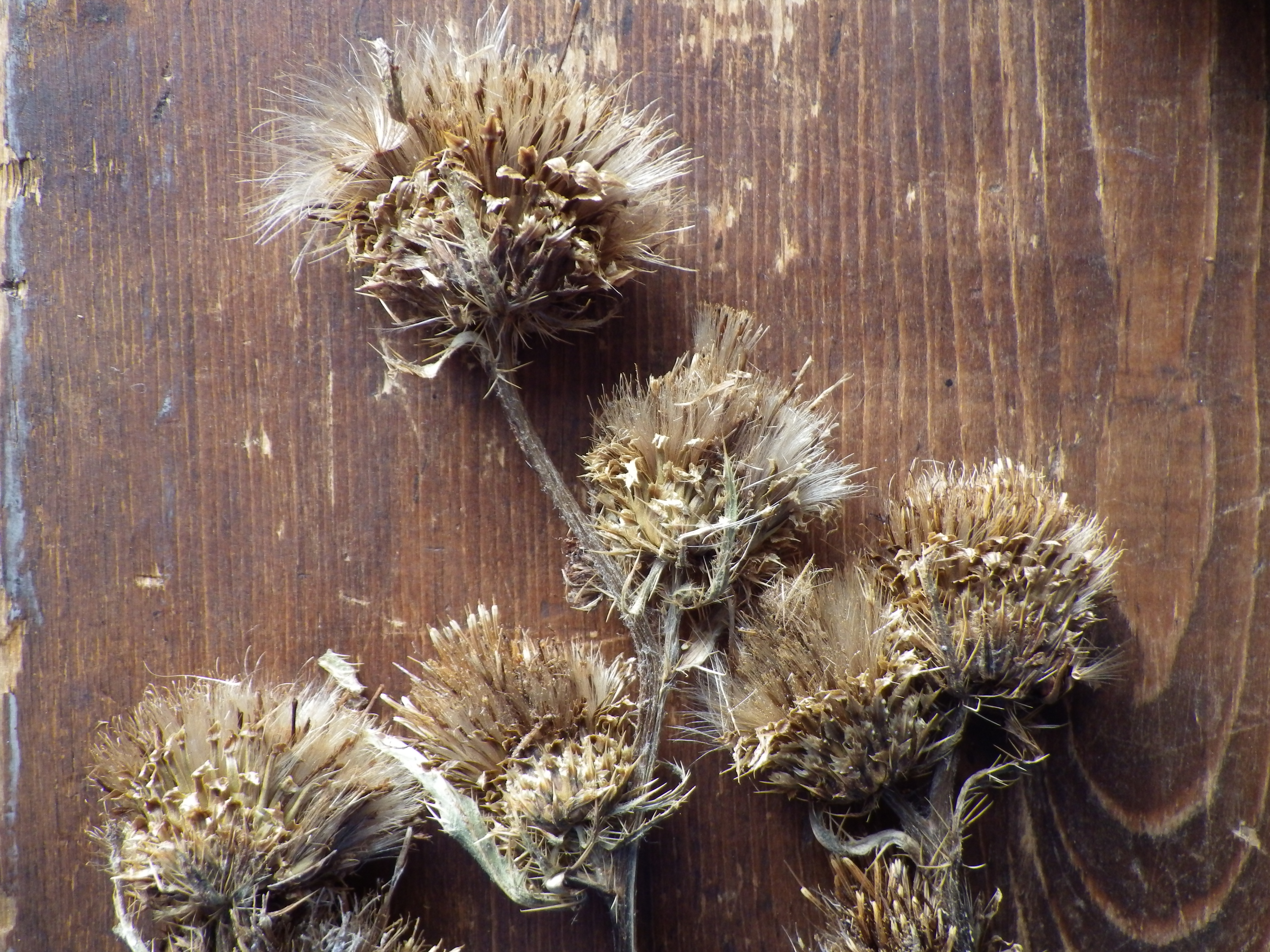 The scarious erose involucral bracts are distinctive of this thistle, which is endemic to west-central Montana.